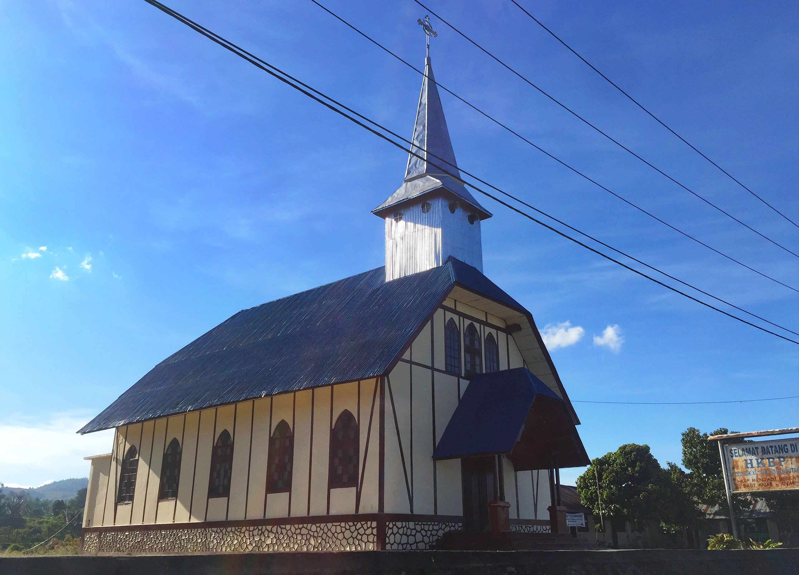 HKBP Tangga Batu, Church in Tangga Batu, Tampahan, Toba Samosir